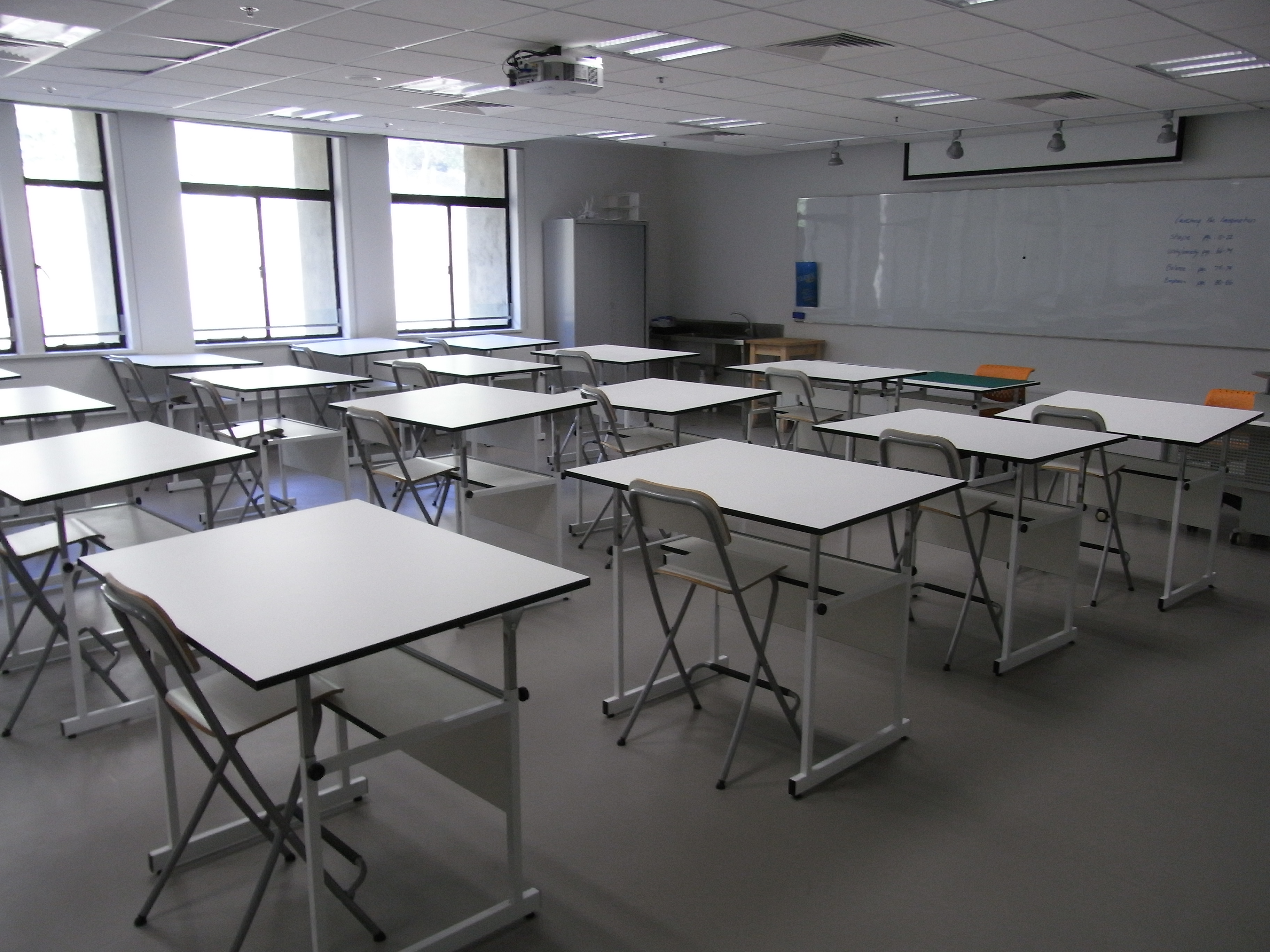 薩凡納藝術設計學院, SCAD Hong Kong, No.292 Tai Po Road, Hong Kong